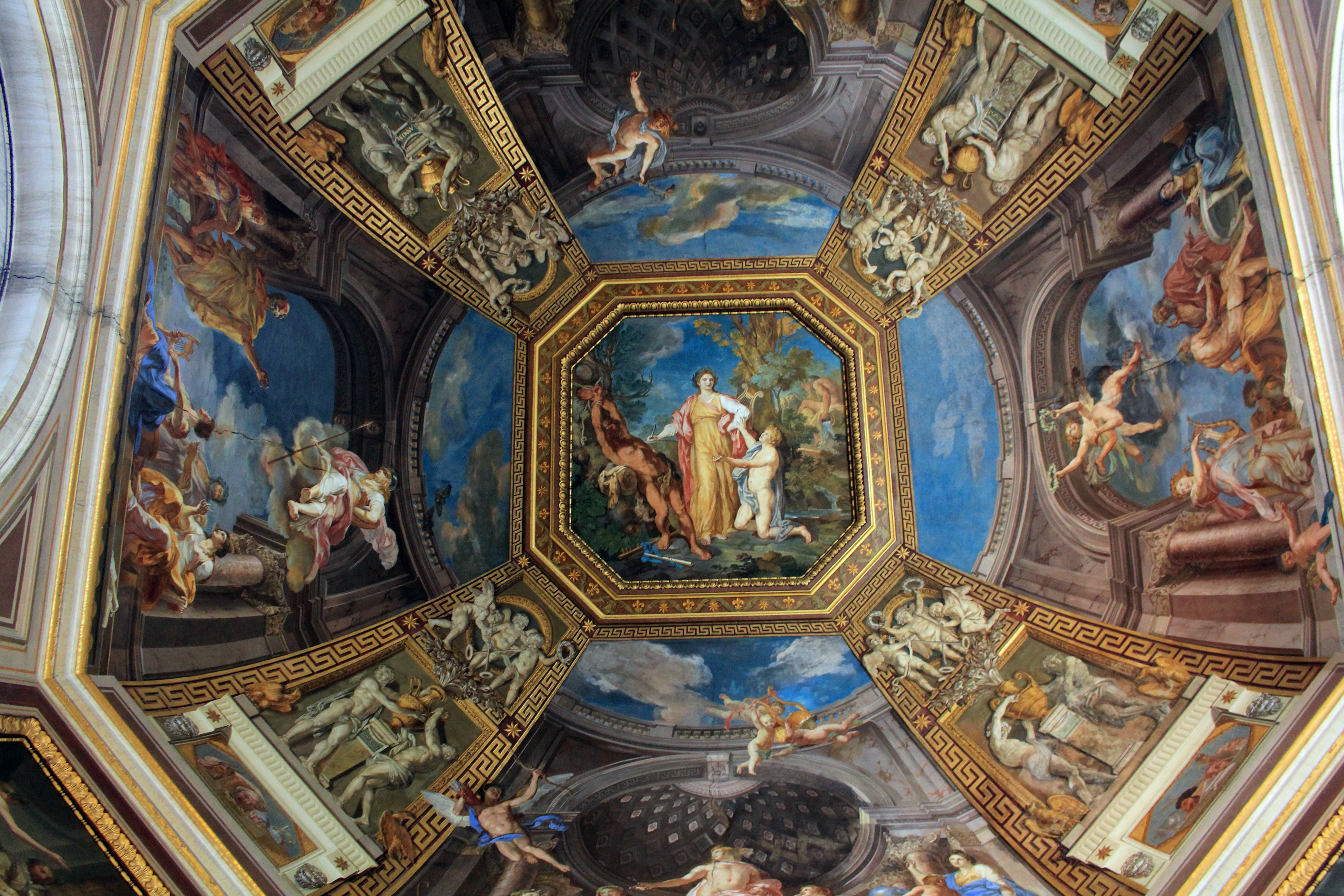 Ceiling of the Sala delle Muse (Vatican Museums) - Apollo and the Muses and related stories (artist: Tommaso Conca) in Vatican City, Rome